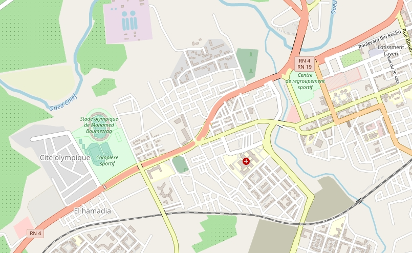 Réseau routier desservant le stade Boumezrag